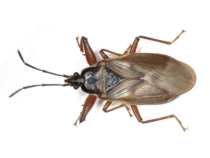 Gastrodes abietum (Lygaeidae) - (imago), Molenhoek - NS-terrein, the Netherlands